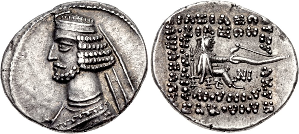 Coin of the Parthian king Orodes II